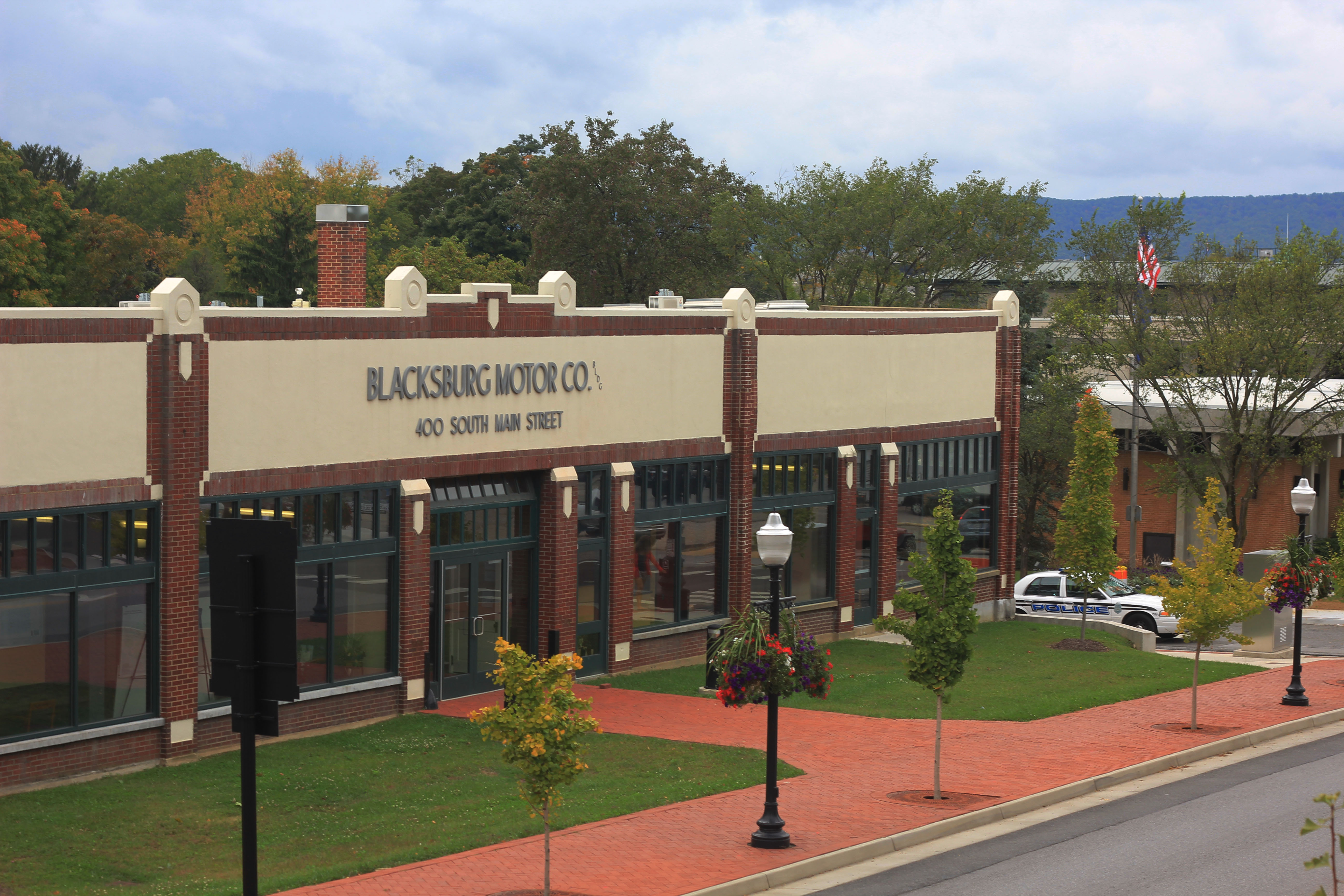 The Blacksburg Motor Company off of North Main Street.